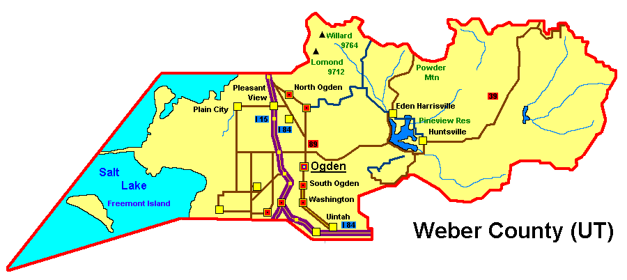 Weber County (UT) Details, selfmade graphic by R.Blauert Dk4hb